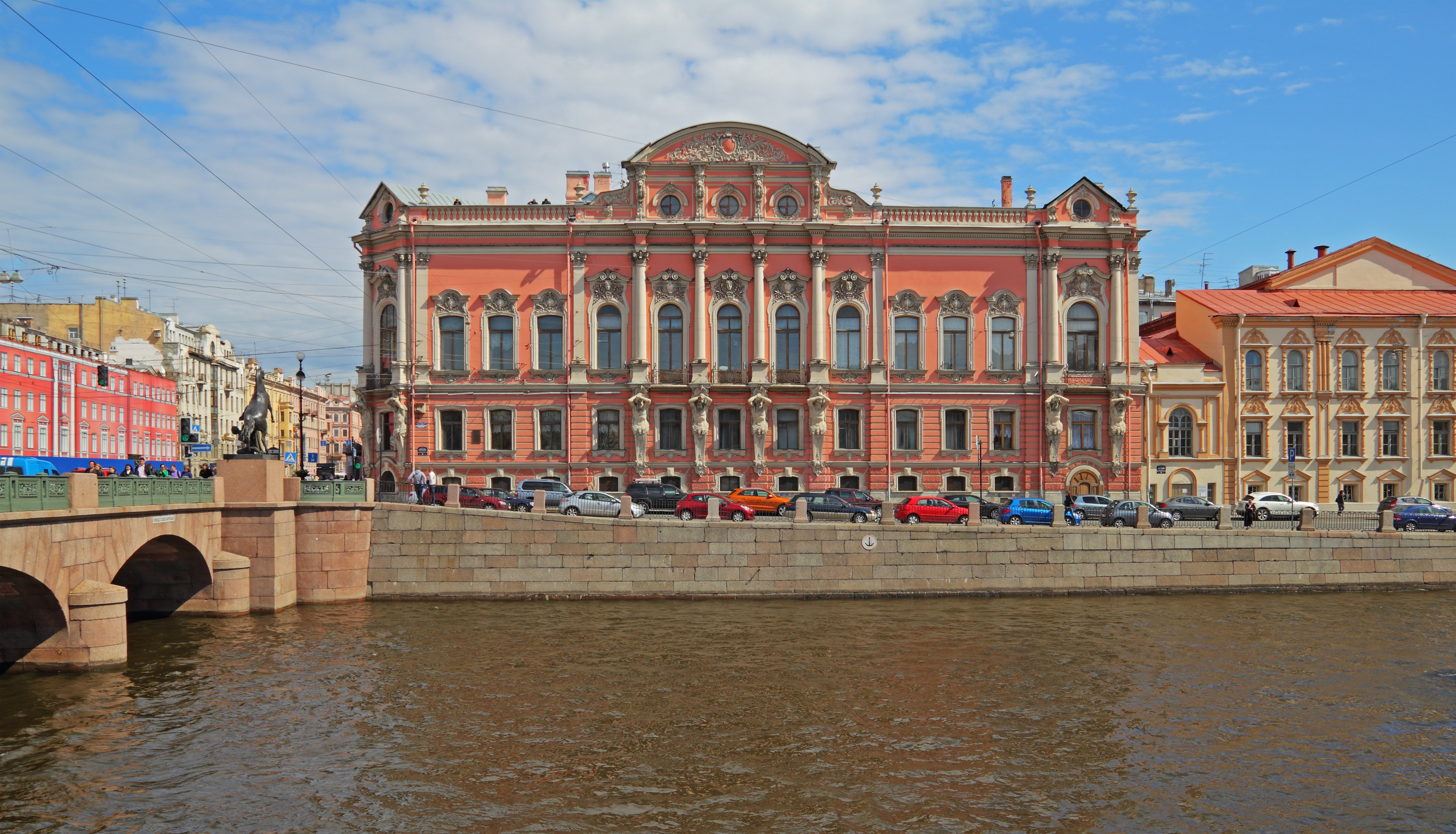 Saint Petersburg, Russia. Beloselsky-Belozersky Palace at Fontanka / Nevsky Avenue.